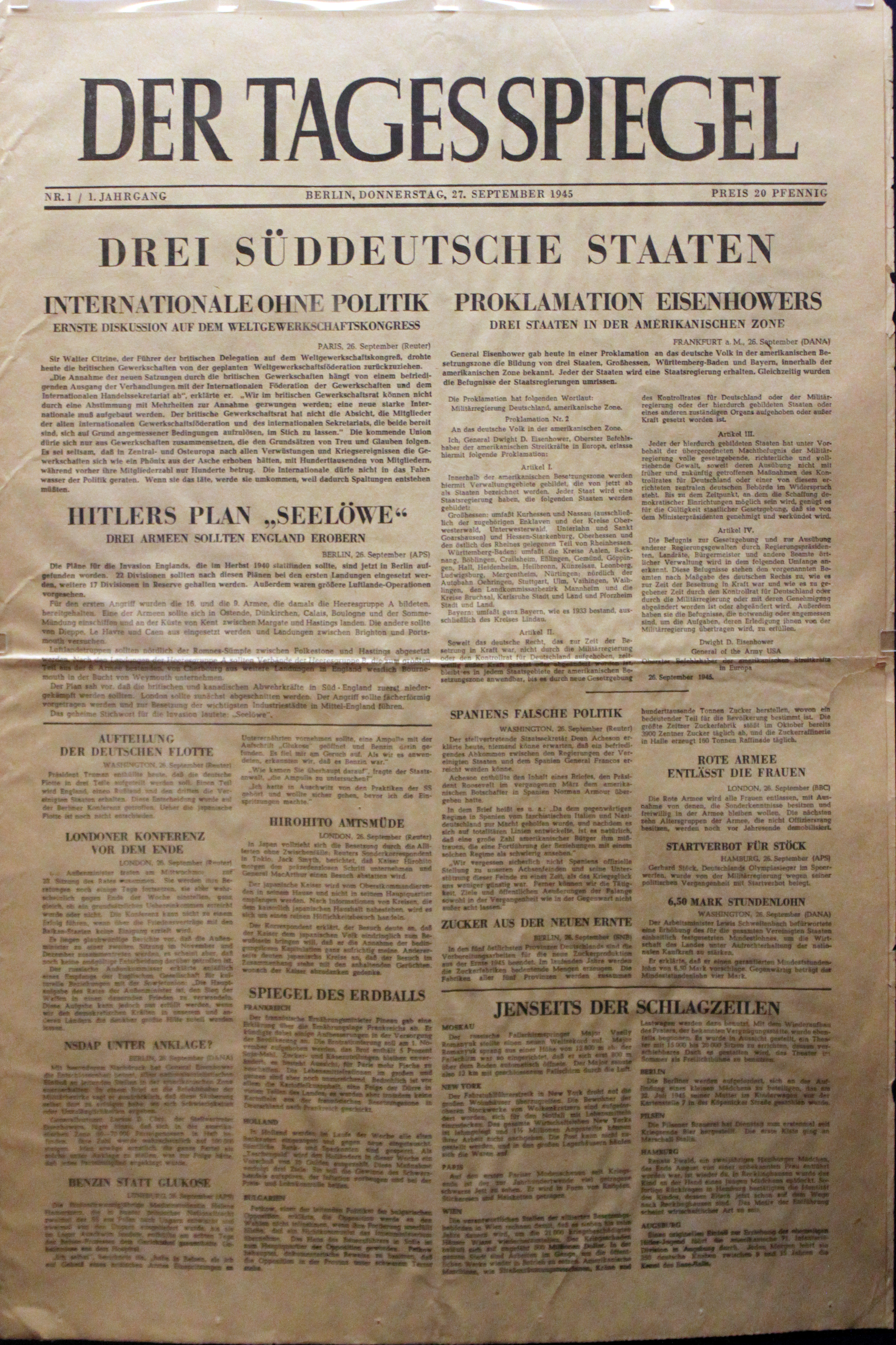 Der Tagesspiegel (German Newspaper); first edition from 27.09.1945 shown at the AlliedMuseum Berlin